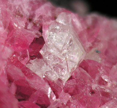 Cahnite, Rhodonite Locality: Franklin Mine, Franklin, Franklin Mining District, Sussex County, New Jersey, USA (Locality at ) Size: 8.1 x 5.3 x 4.4 cm. A very impressive and attractive specimen of the rare calcium arsenic borate Cahnite from the Franklin mine. The piece comes from the Richard Kosnar and Frank Edwards collections, and retains the Frank Edwards label dating the piece to 1967. Cahnite was named after noted mineral dealer, Lazard Cahnite, and Franklin is the type locality for the species. The specimen hosts small chalk-white Cahnite crystals on beautifully contrasting pink Rhodonite. The closeup photo shows that the Cahnite crystals are terminated, and some of the Rhodonite crystals are remarkably gemmy and rich in color. The largest group of Cahnite crystals measures 1.1 cm across.